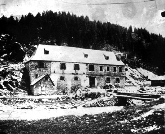 A picture of Banhs de Tredòs (Aran, southern Occitania)